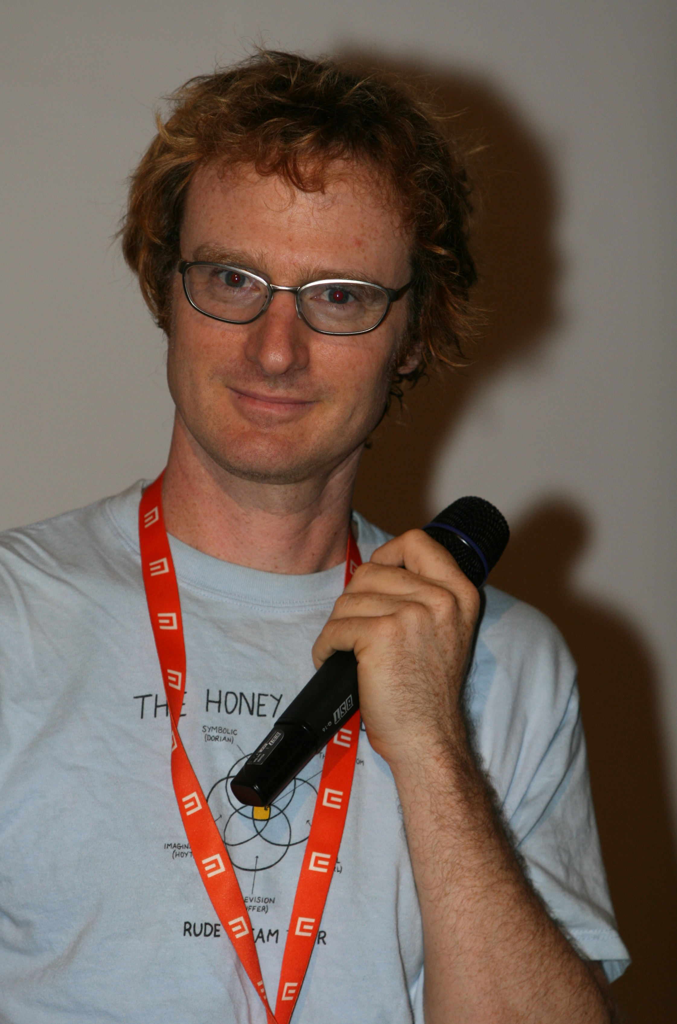 Ari Gold at 43rd Karlovy Vary International Film Festival